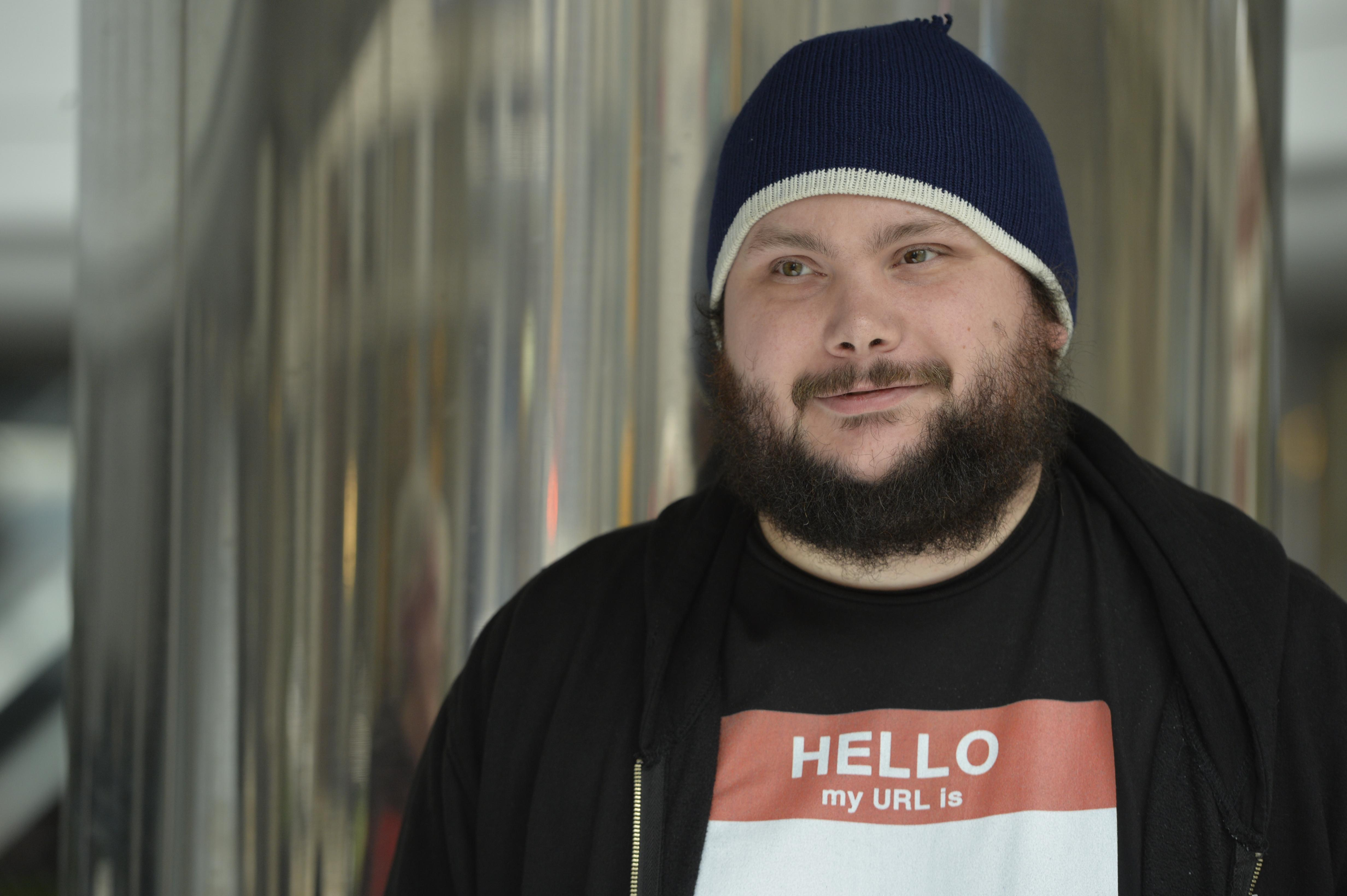 Matt Lee In Vancouver, 2016.